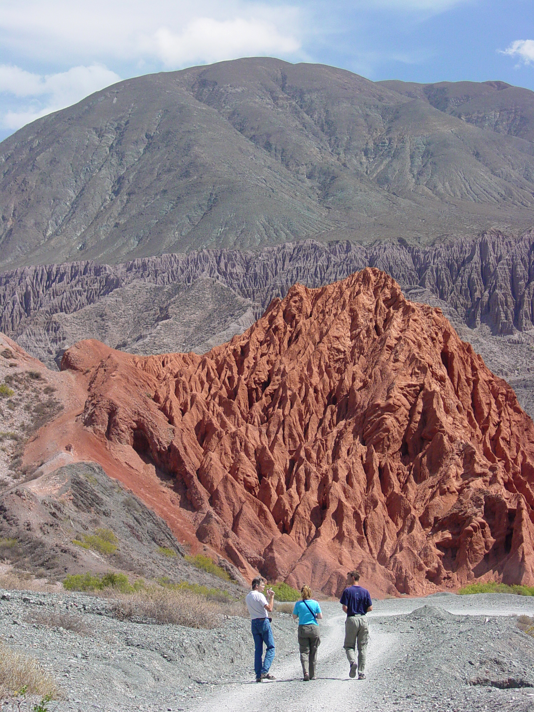 Tourists stroll through scenery at Purmamarca, northwest Argentina. December 2003.